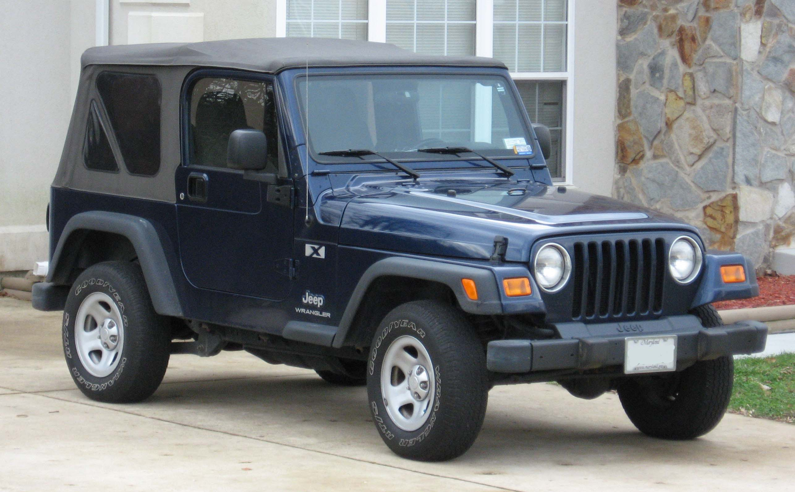 1997-2006 Jeep Wrangler X photographed in USA.